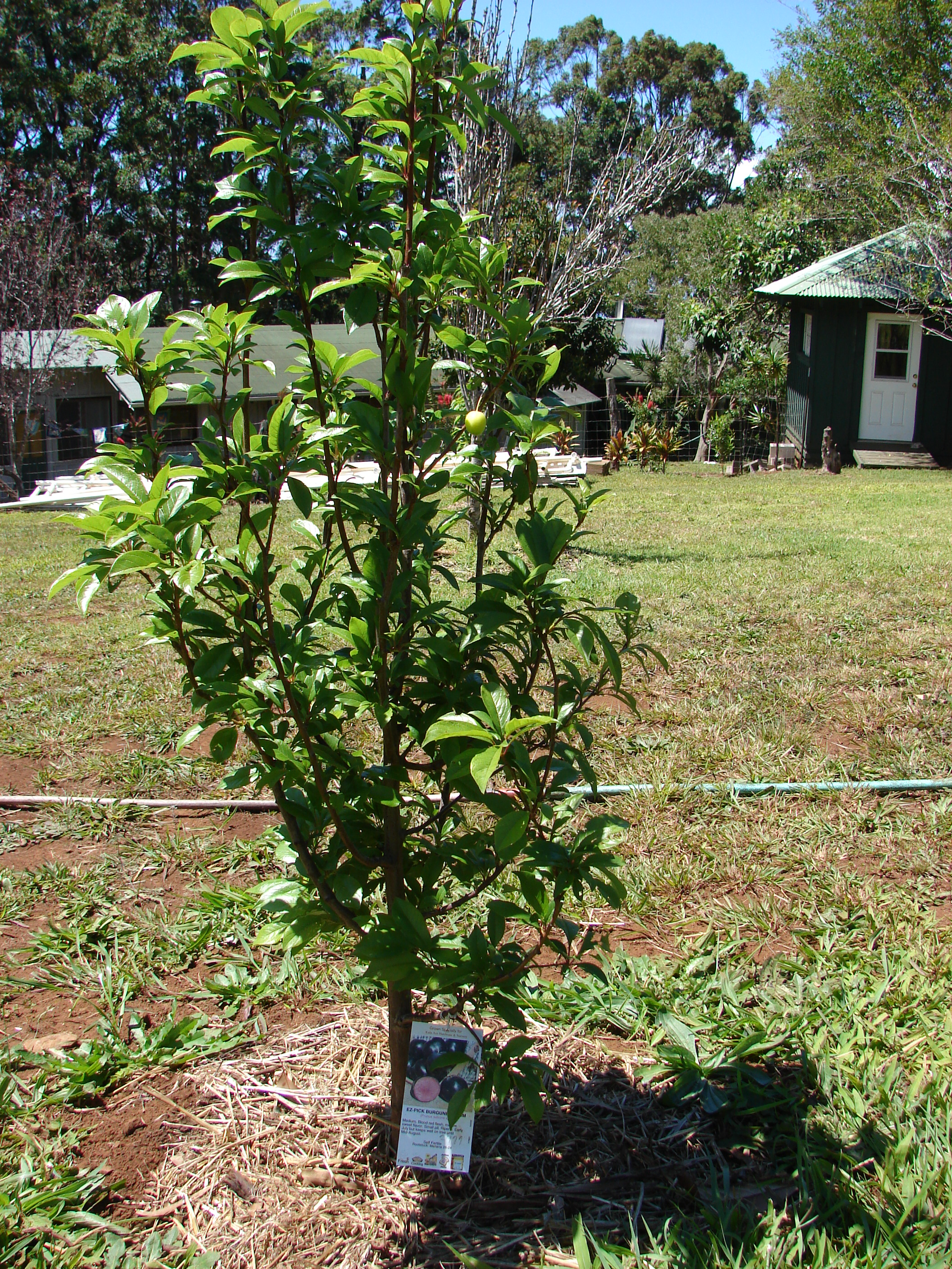 Prunus salicina (small fruit coming Burgundy). Location: Maui, Olinda